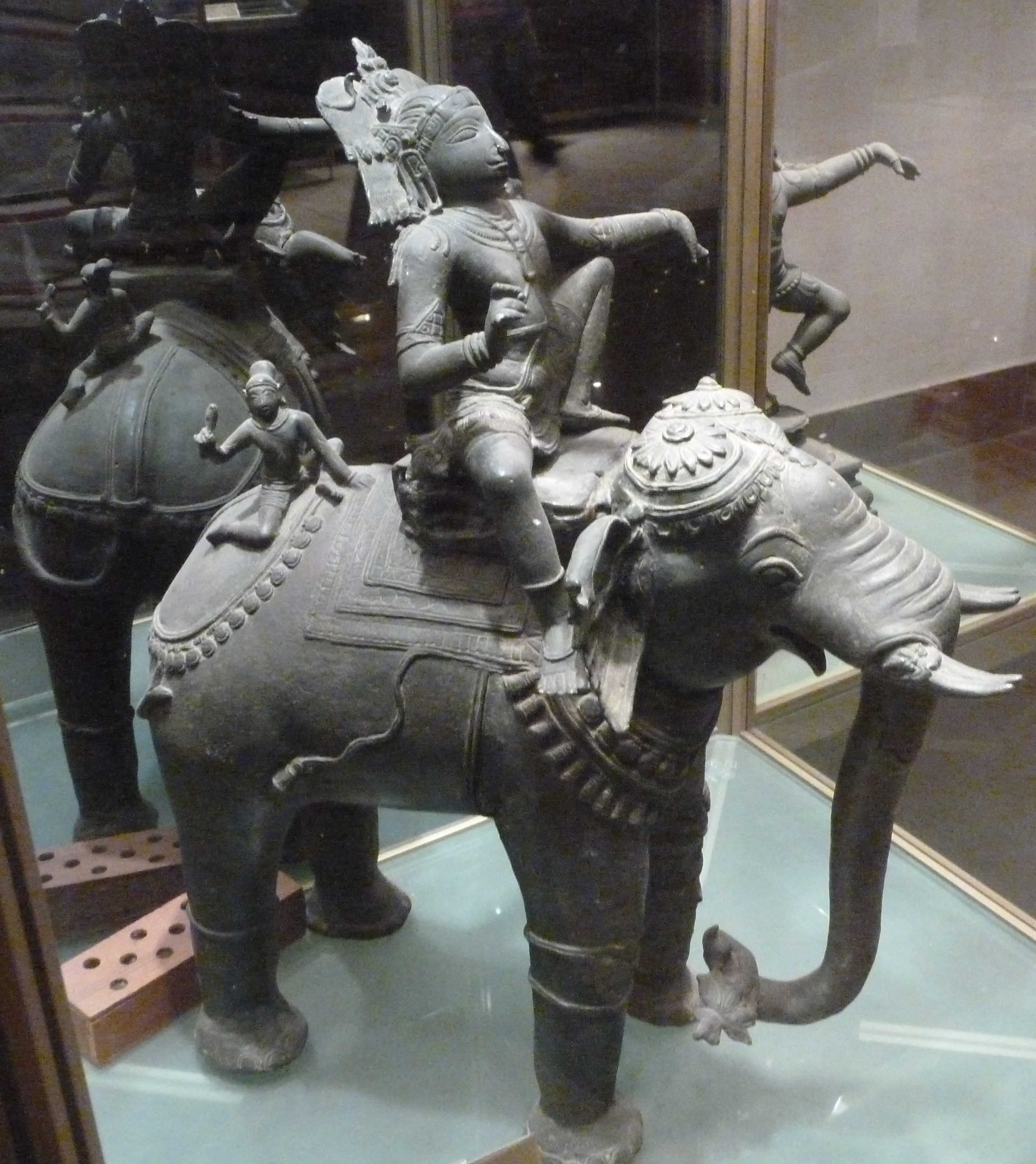 Ayyanar on elephant Thogur, undivided Thanjavur district. About 16th century. Kept in display at Government Museum, Chennai